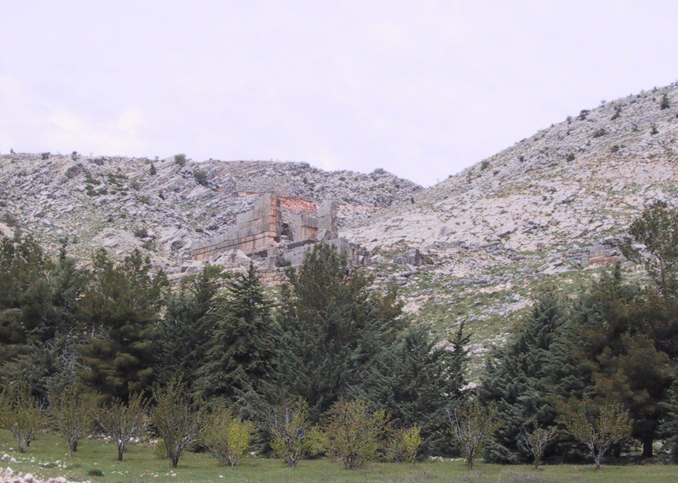 Upper Roman temple in Niha, Bekaa.